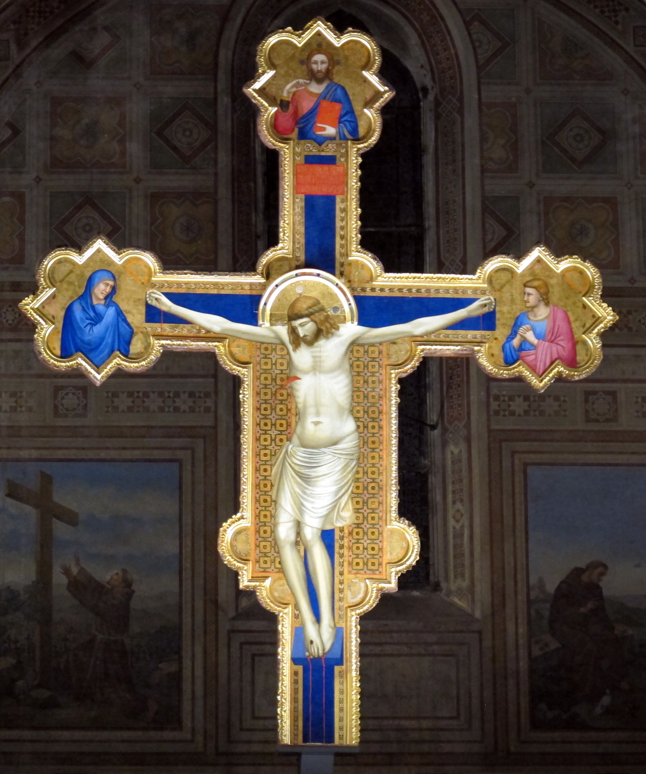 Ognissanti (Florence) - Interior